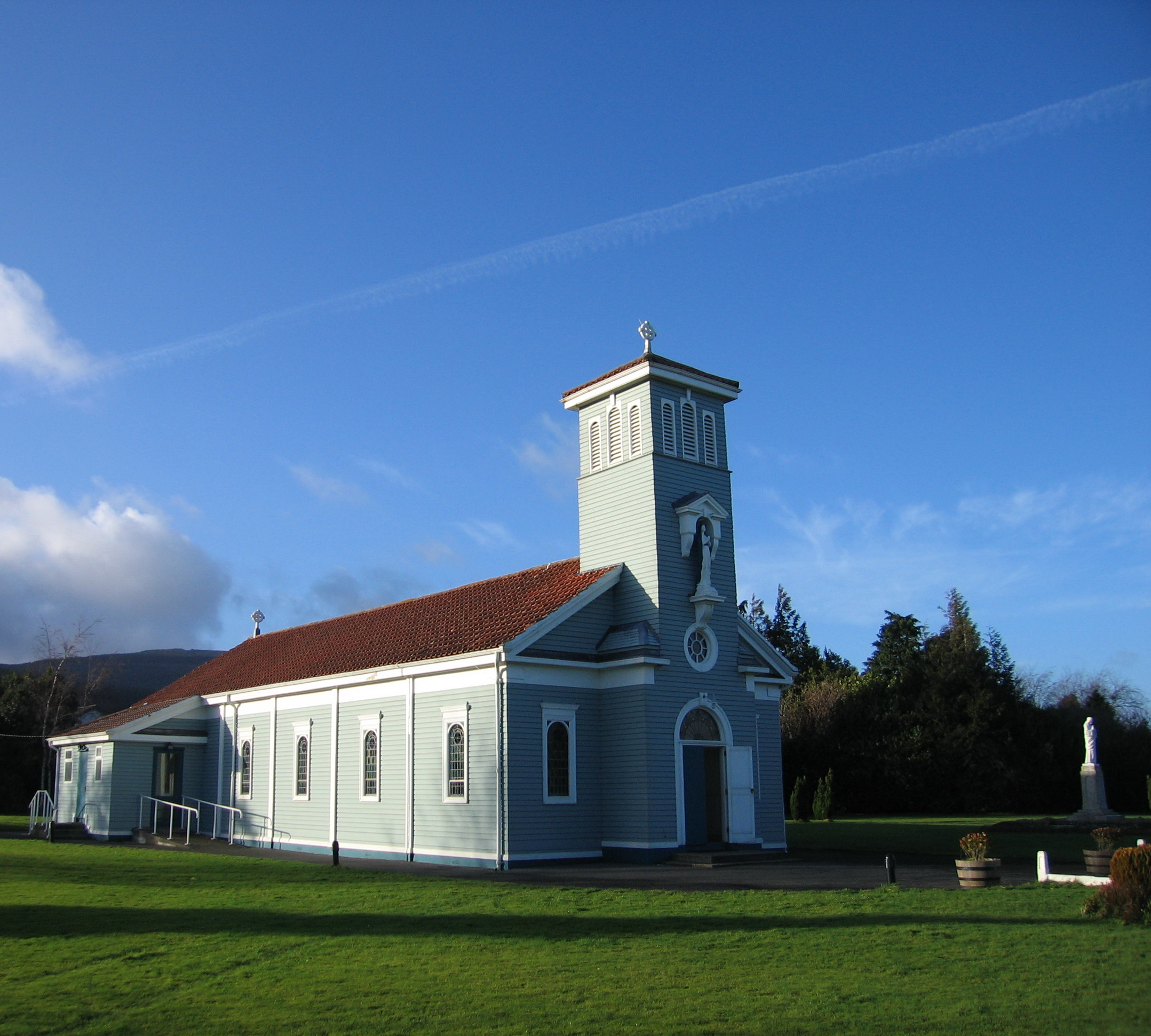 Our Lady of the Wayside Catholic Church, Kilternan, Dublin